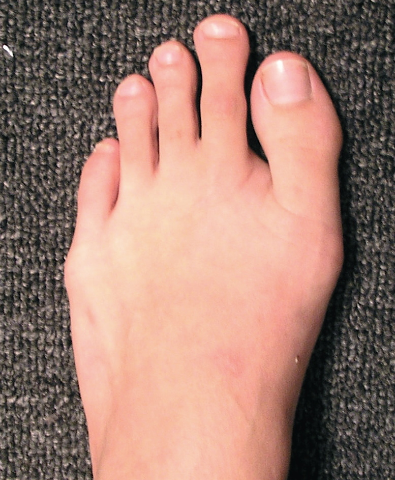 A picture of an extreme case of Morton's Toe